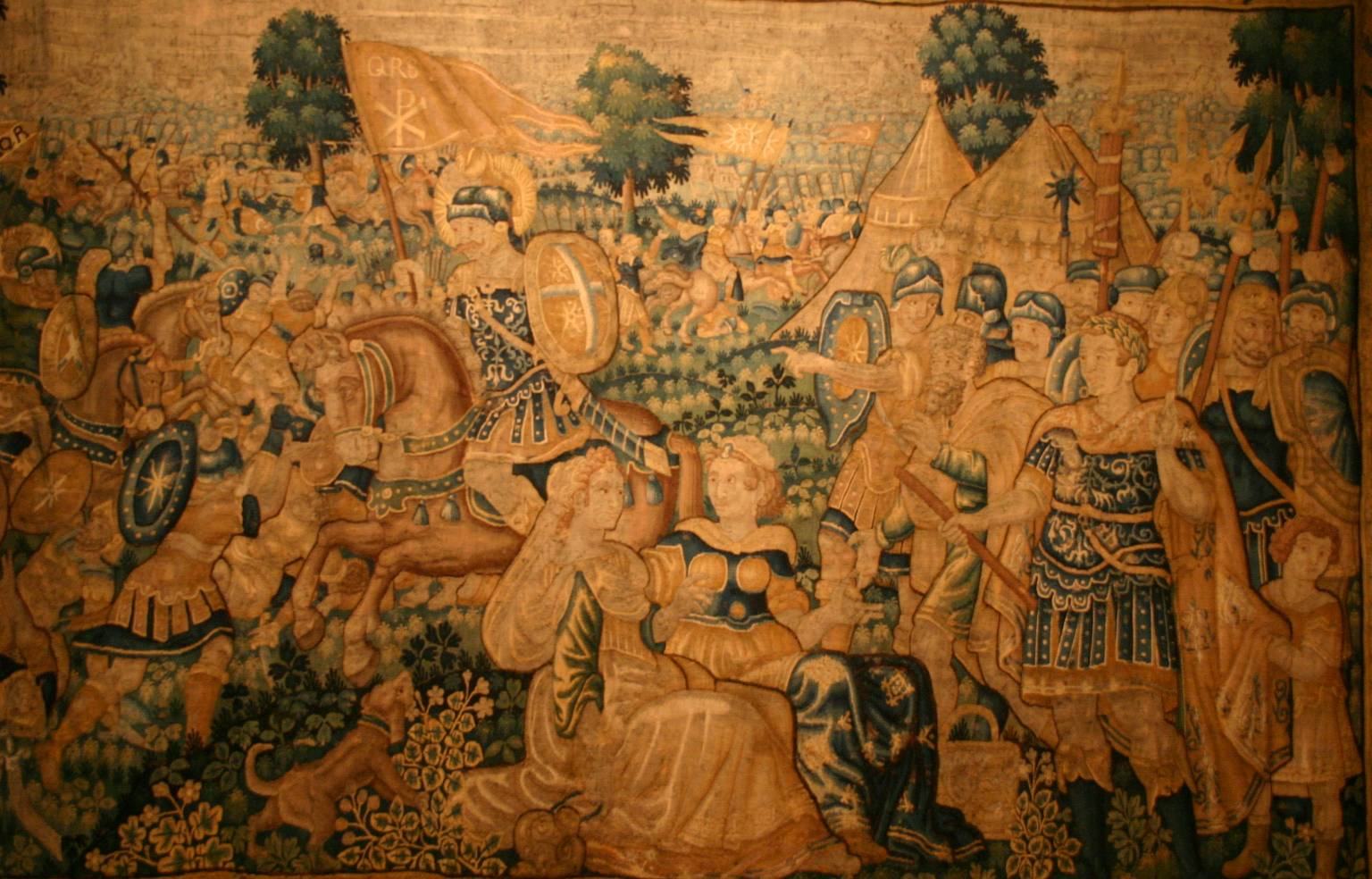 French tapestry